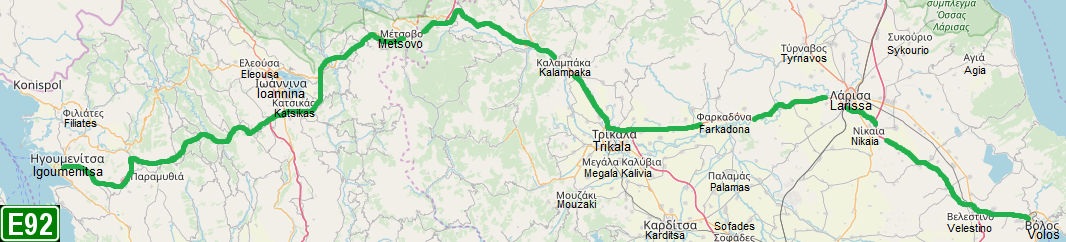 Map of Ε92 This map may be incomplete, and may contain errors. Don't rely solely on it for navigation.